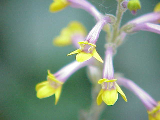 Species: Cryptophragmium ceylanicum Family: Acanthaceae Image No. 1